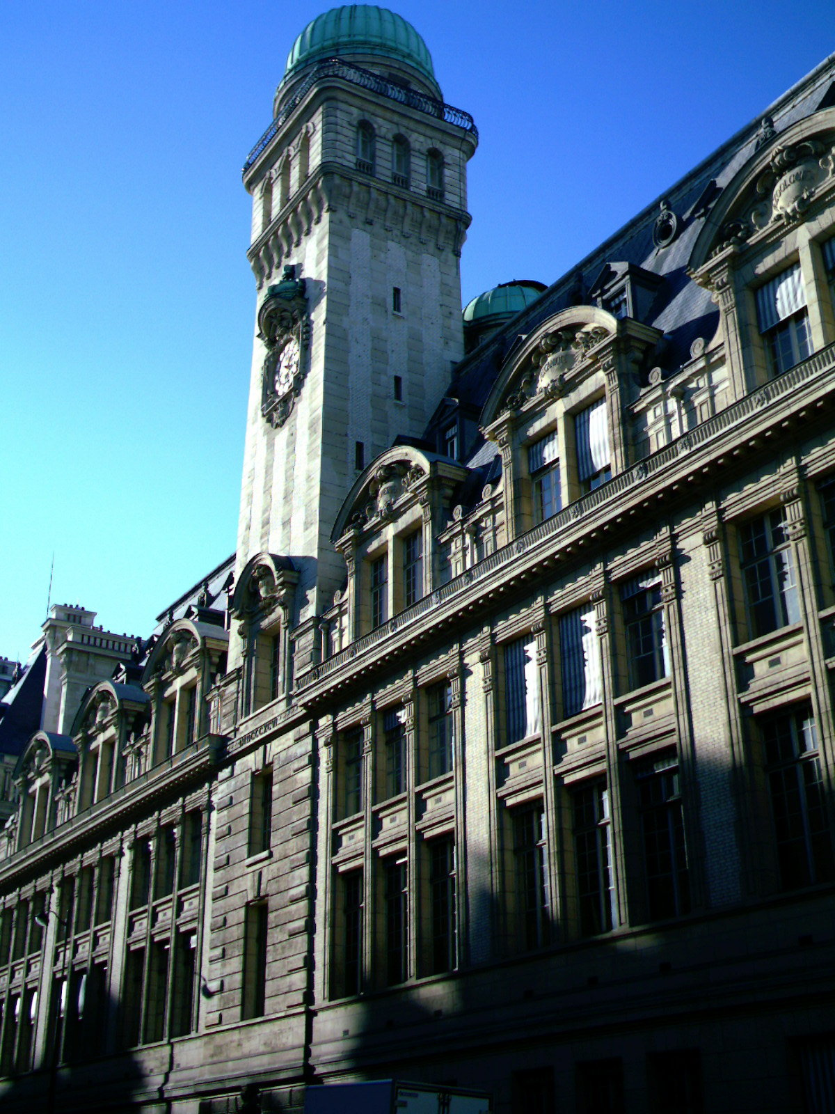 part of the Sorbonne university in Paris, France